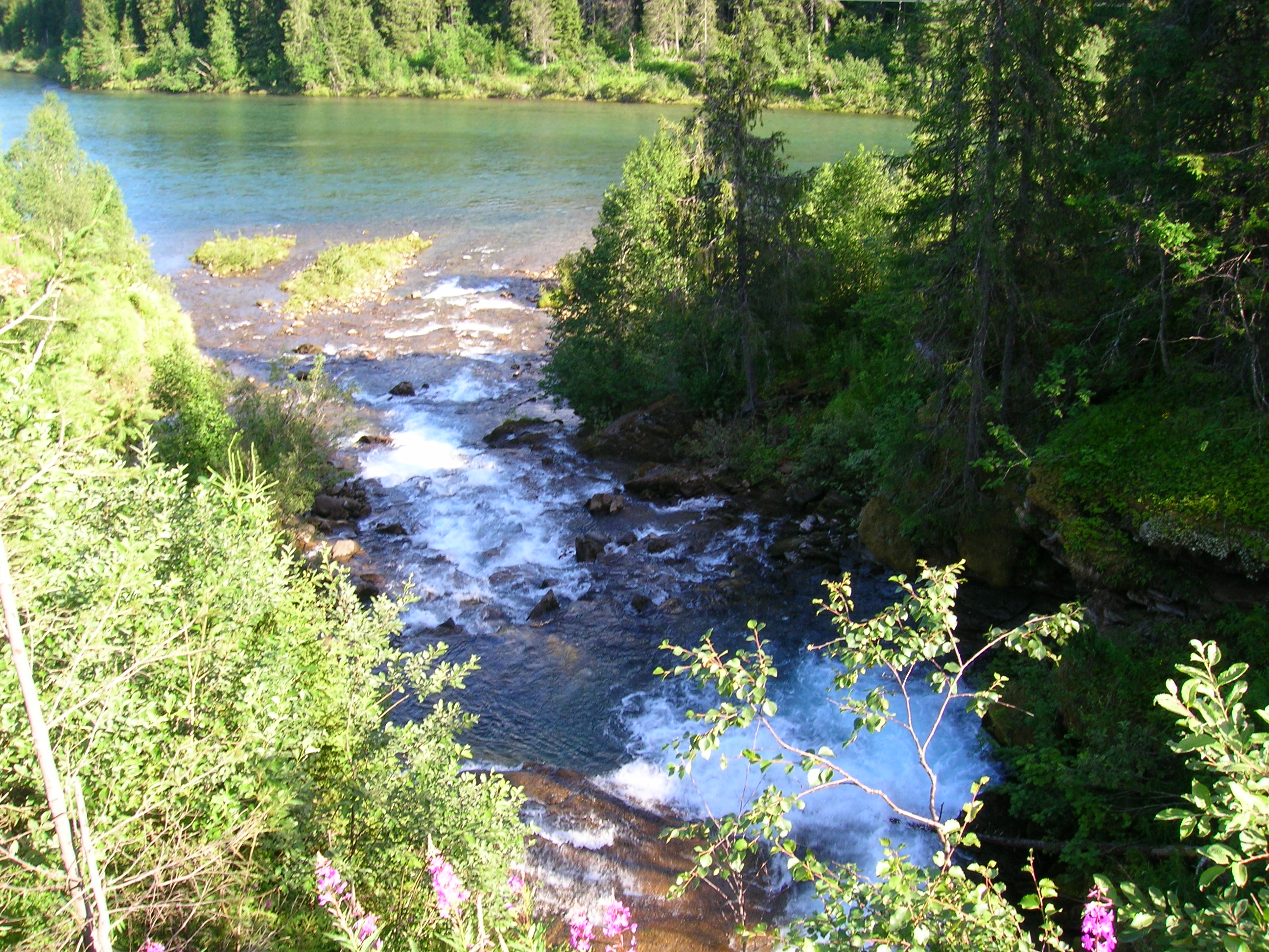 The outlet of the River Eiterå into Ranelva, after having passed beneath a bridge on European route 6 in Dunderlandsdalen, in Rana municipality, county of Nordland, Norway, Photo 19 July, 2007 with a Nikon Coolpix 5600 5,1 Megapixel camera.